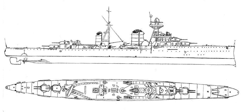 Luigi Cadorna class cruiser. Scanned drawing.